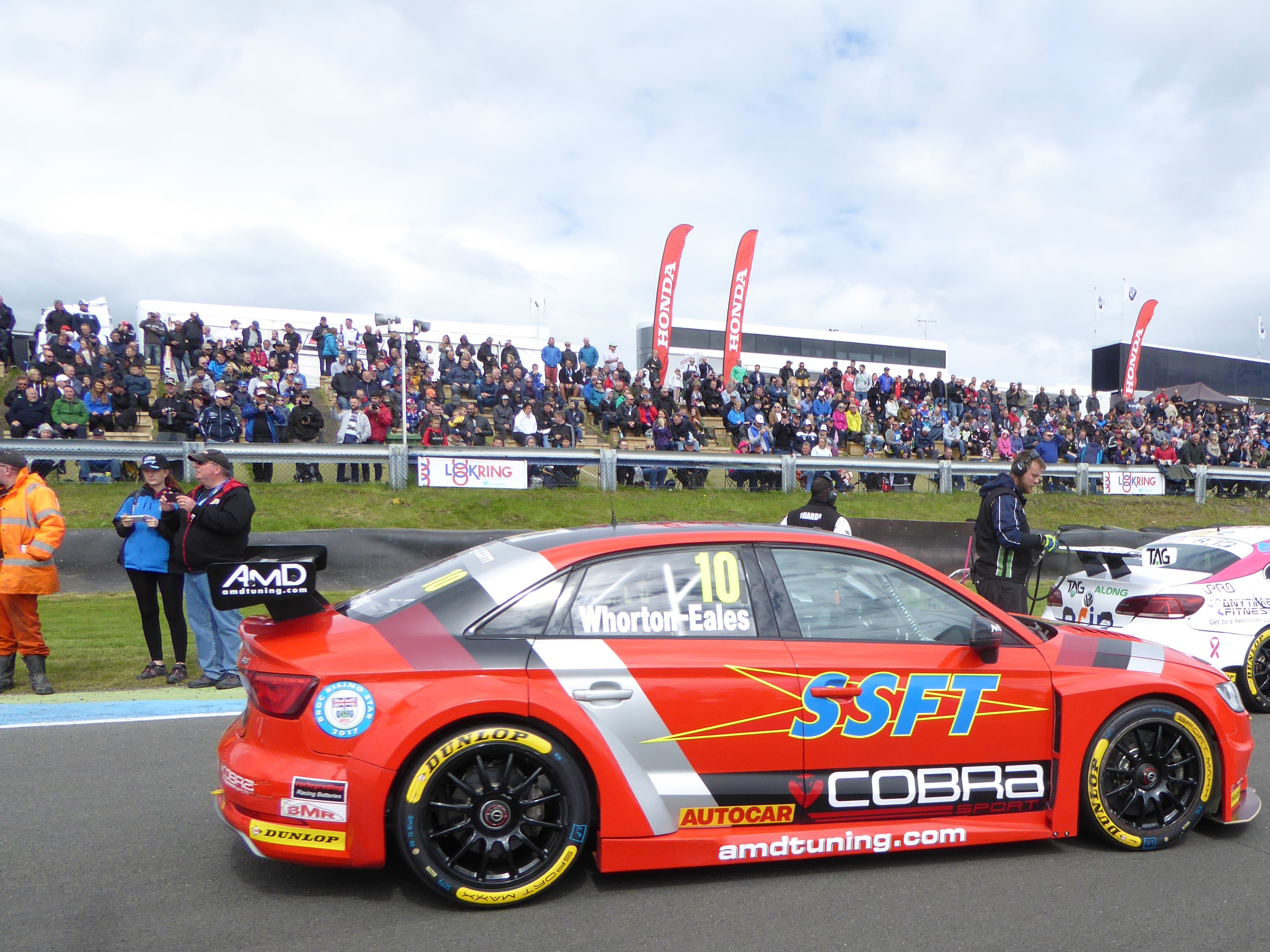 Ant Whorton-Eales ( with Cobra Exhausts), at the Knockhill round of the 2017 British Touring Car Championship.